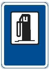 Road sign of the Czech Republic